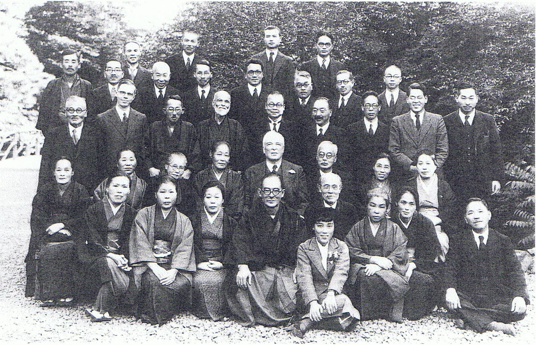 Barclay Fowell Buxton、MITANI Tanekiti 1937